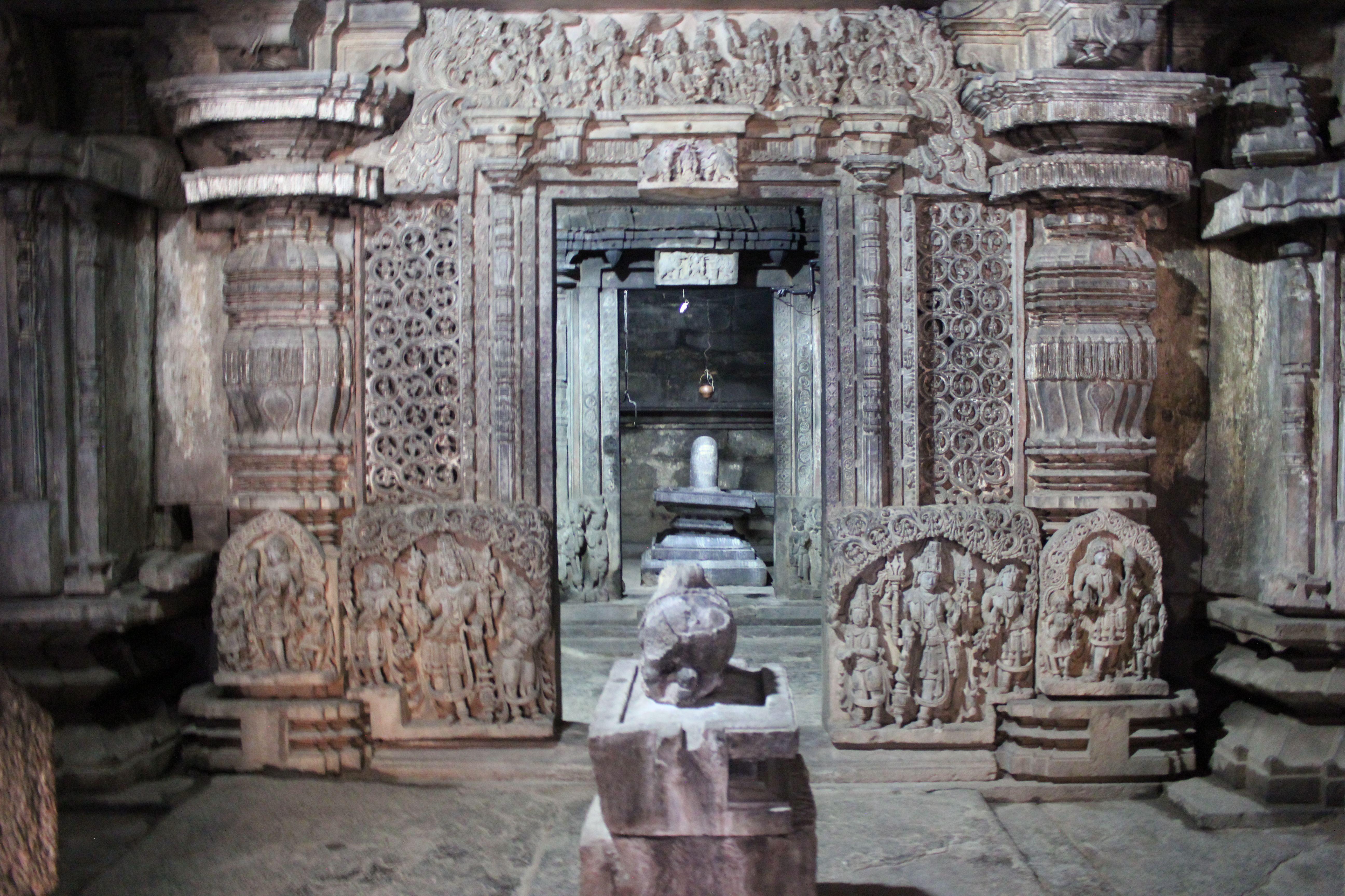 This photograph was taken by me at the Bhimeshvara temple (also spelt Bhimesvara) at Nilagunda (or Neelagunda) in the Davangere district of Karnataka state, India, The temple was constructed during the last quarter of the 11th century A.D. during the rule King Vikramaditya VI of the Western (Kalyani) Chalukya dynasty